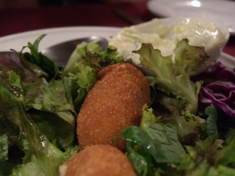 Chicken Croquettes with Alioli - Colmao Flamenco, AUD10? The chicken croquettes were nice, but the star was the alioli! It was garlicky and smooth! I remember liking the alioli in Spain, but I think this was better than any I've had :) Colmao Flamenco 60 Johnston St Fitzroy 3065 (03) 9417 4131 Reviews: - Colmao Flamenco - Mietta's